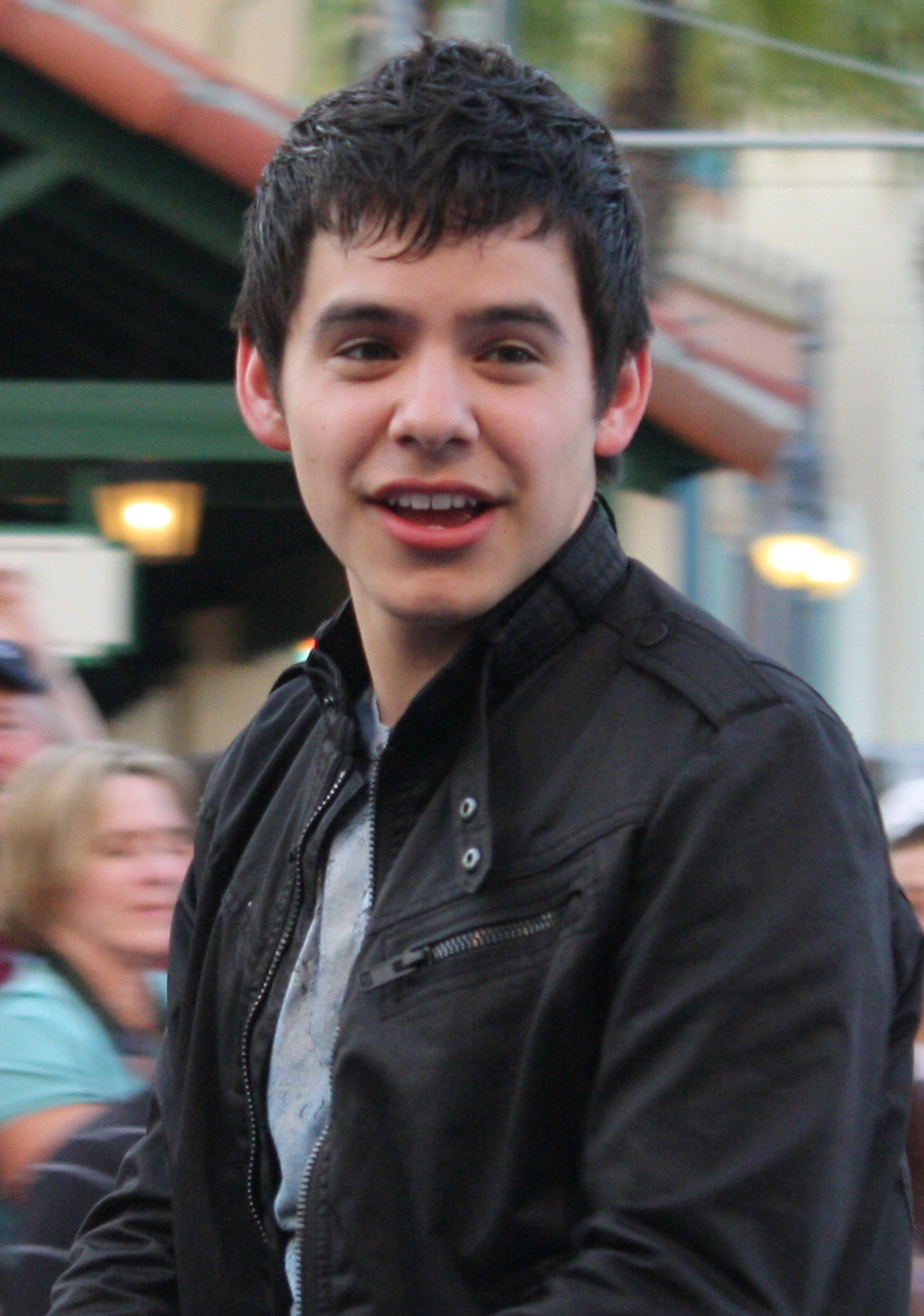 David Archuleta, runner-up on season seven of American Idol.